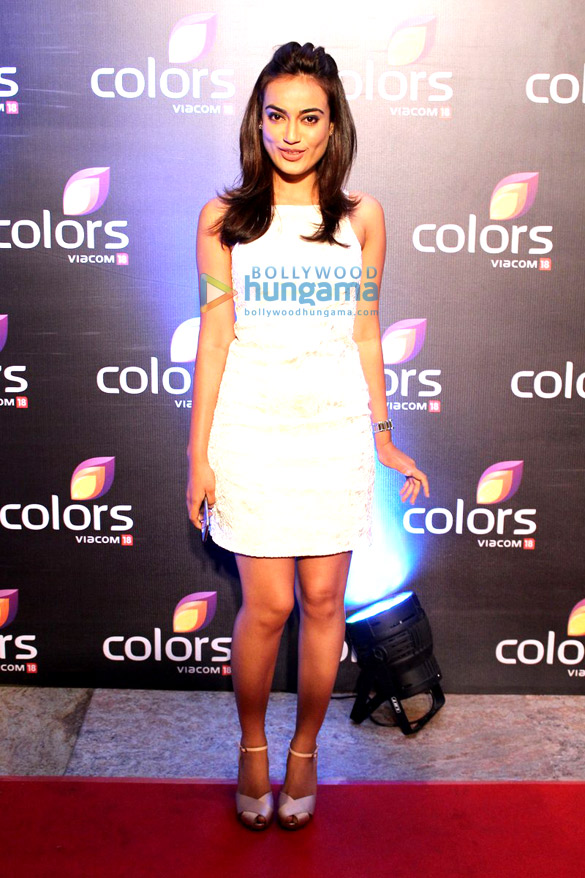 Surbhi Jyoti grace Colors’ annual bash